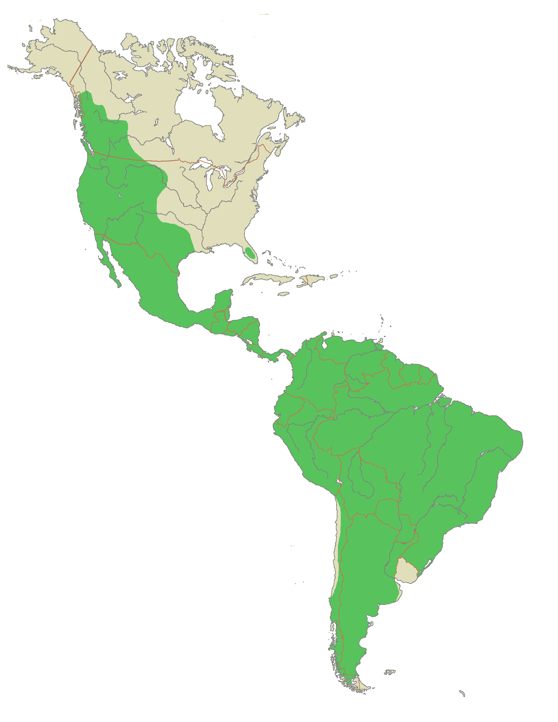 Range of the puma concolor. Made starting with Brion VIBBER's maps at and based on information from [1], [2].